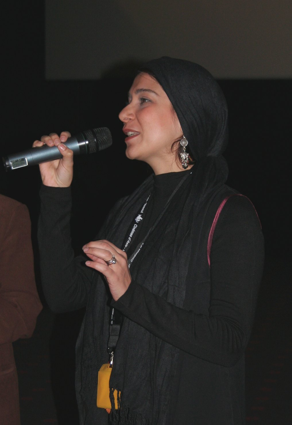 Mona Zandi Haghighi at international asian movies festival in Vesoul